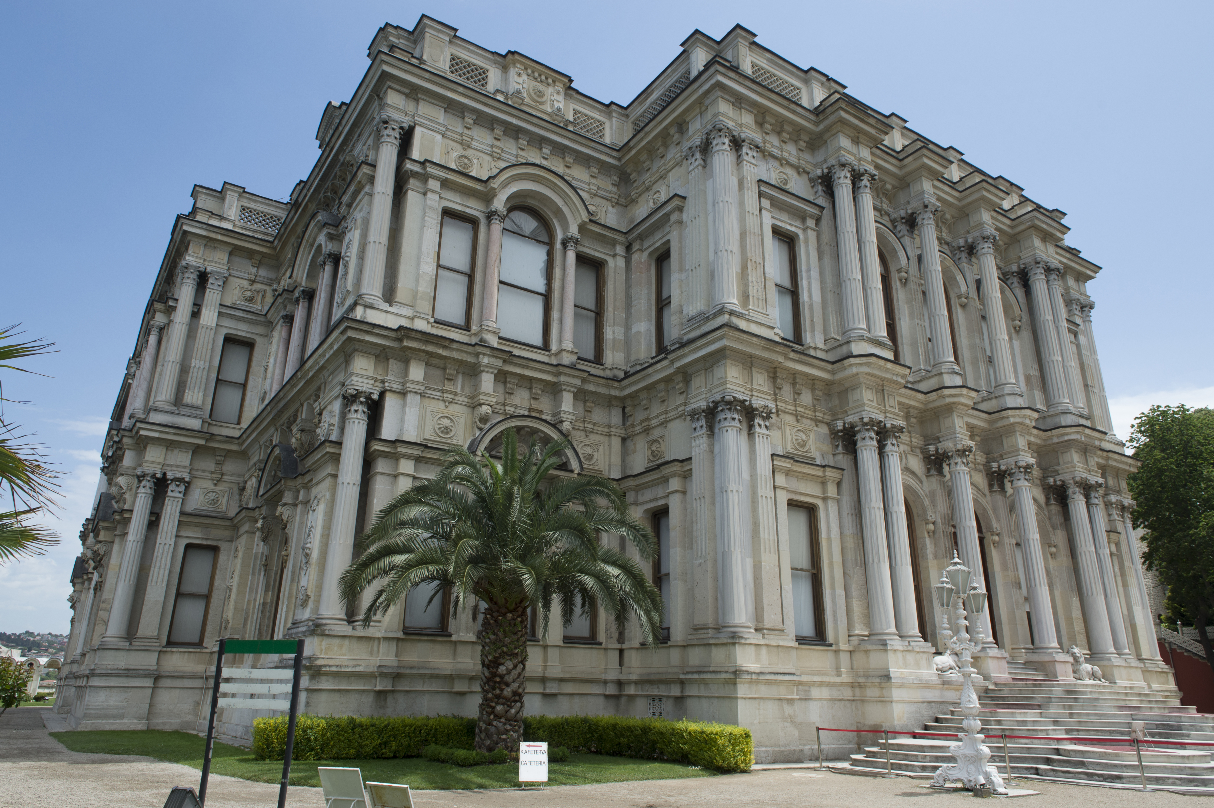 The southern side